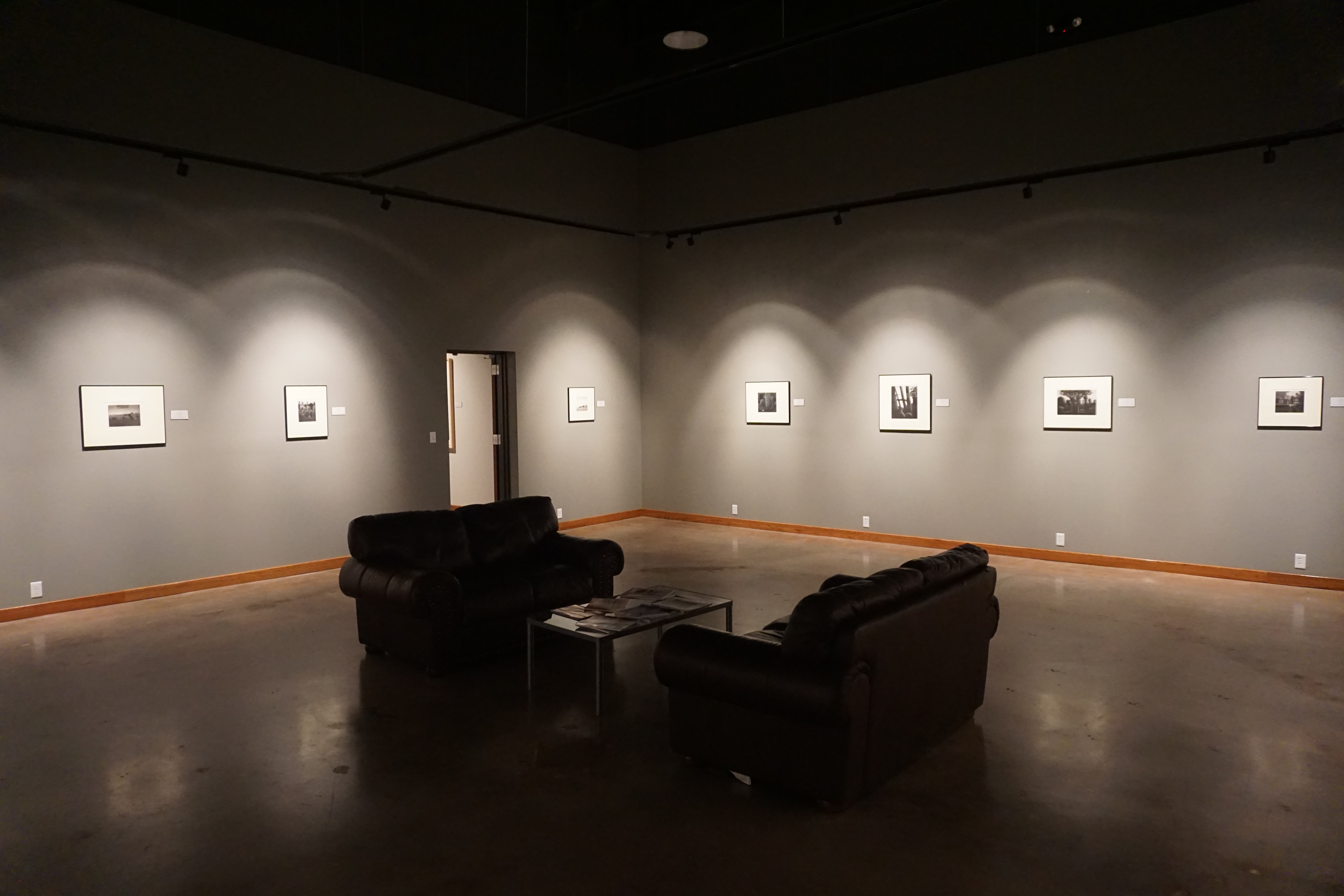 The Robert Kipniss: Light and Shadow exhibit inside the Wichita Falls Museum of Art in Wichita Falls, Texas (United States).